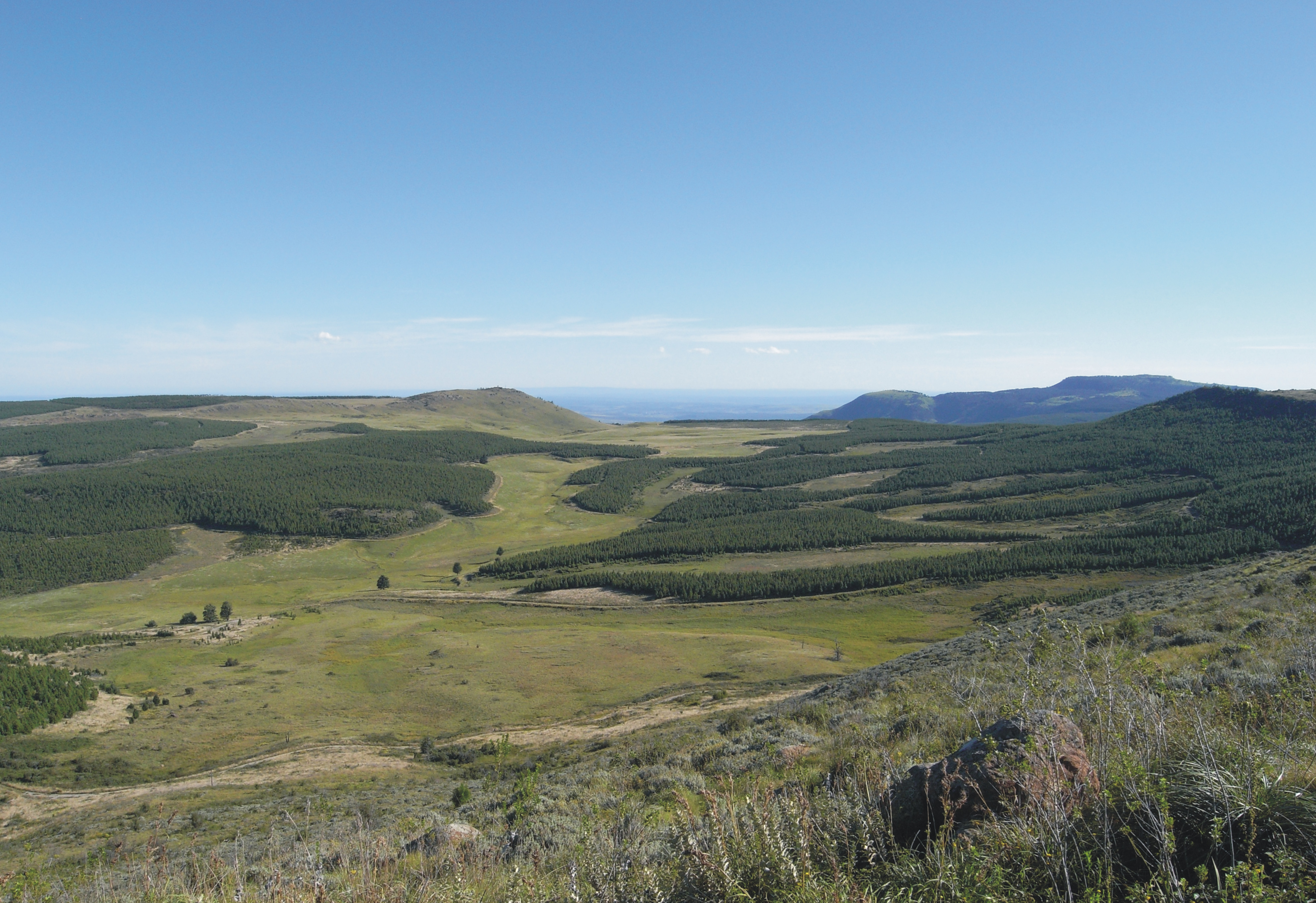 View from Gaika's hill to Tor Doone (center, left) and the Tyhume Valley (South Africa, Eastern Cape, Local Municipality Nkonkobe)